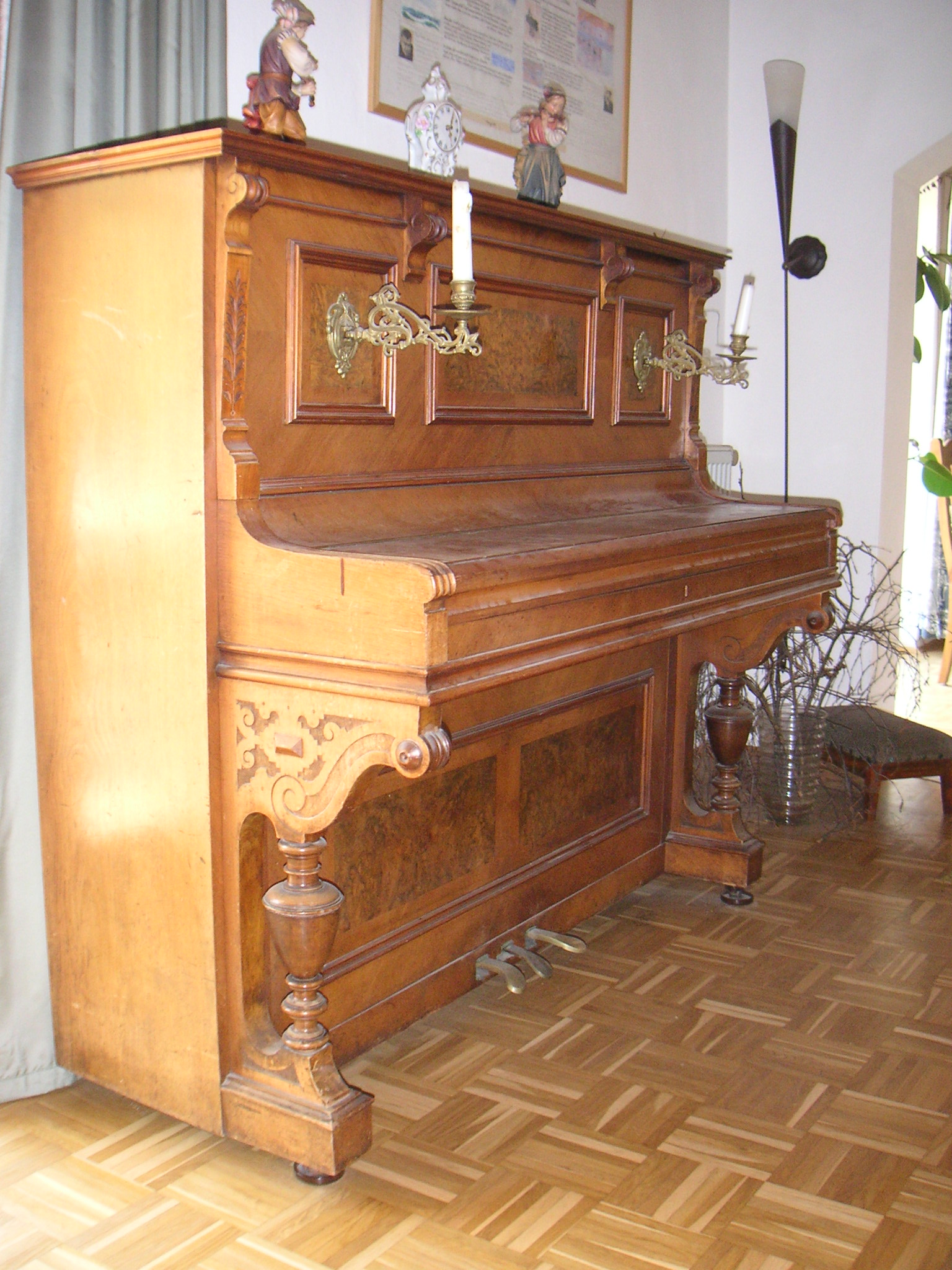 piano, side view.